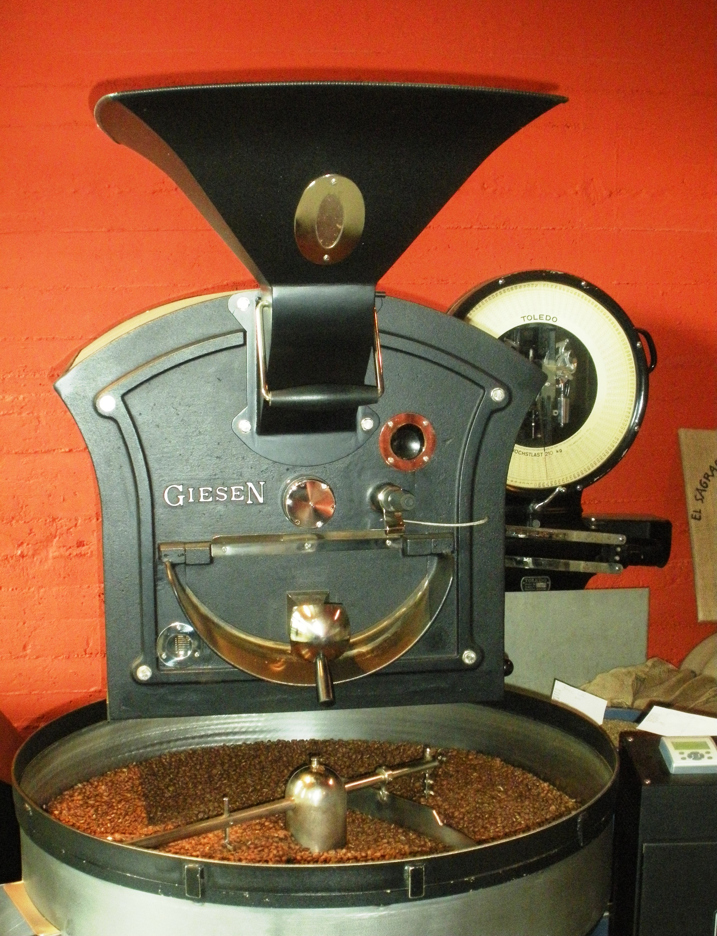 Coffee Roasting Machine with gas burner and cooler